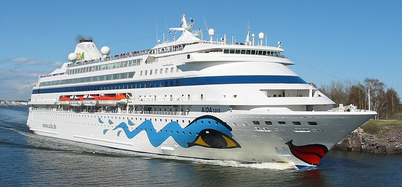 Cropped version of Image:AIDAcara Helsinki.jpg M/S AIDAcara leaving from Helsinki. IMO Number: 9112789 MMSI Number: 247117300 Callsign: IBNR Length: 193 m Beam: 32 m